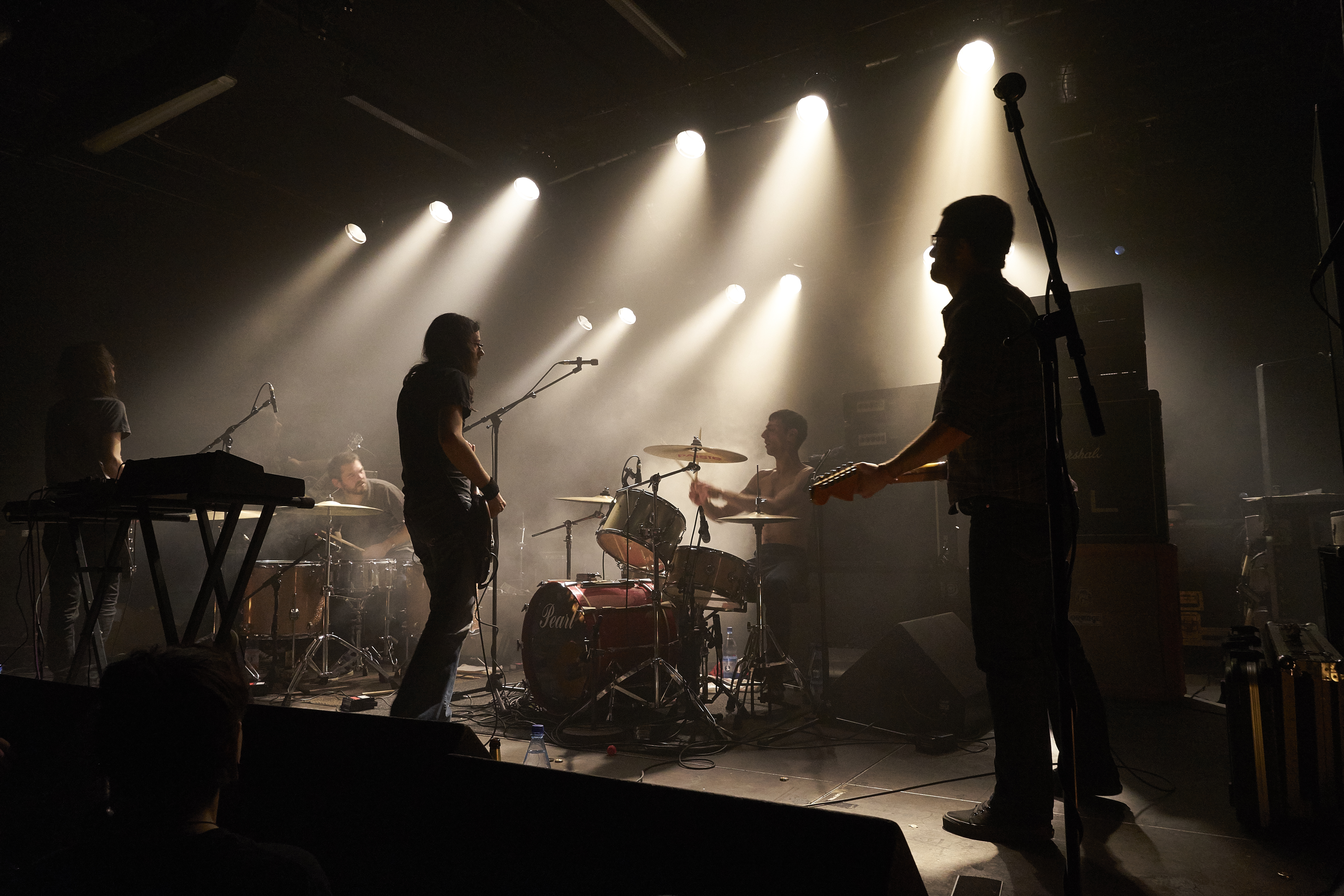 Year of No Light at Droneberg Doom Festival, Berlin-Kreuzberg SO36, 16.04.2015 Festivalsommer This photo was created with the support of donations to Wikimedia Deutschland in the context of the CPB project "Festival Summer". Personality rights warning Although this work is freely licensed or in the public domain, the person(s) shown may have rights that legally restrict certain re-uses unless those depicted consent to such uses. In these cases, a model release or other evidence of consent could protect you from infringement claims.